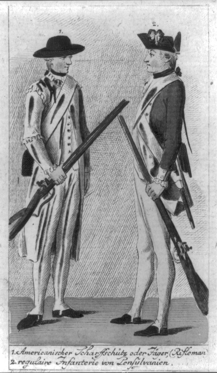 1. American sharpshooter or rifleman (rifleman) 2. regular infantry of Peensylvania. Engraving shows German versions of an American rifleman and a soldier with the Pennsylvania infantry, full-length, standing, facing each other, wearing military uniform, holding rifles. CREATED/PUBLISHED: 1784. ARTIST: Daniel Chodowiecki. ENGRAVER: Daniel Berger. REPOSITORY: Library of Congress Rare Book and Special Collections Division Washington, D.C. 20540 USA.